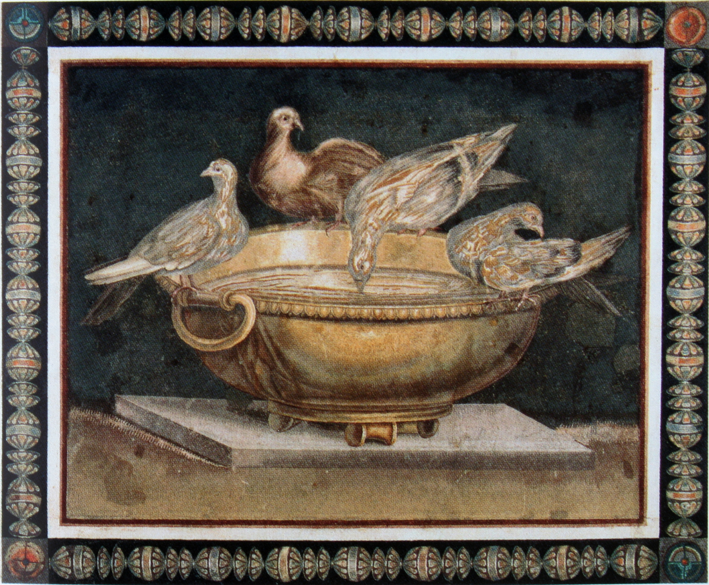 Mosaic emblema with doves. Roman copy after an Pergamenian original from the 2nd century BCE. Villa of Emperor Hadrian, Tivoli, Italy. 85 x 98 cm.